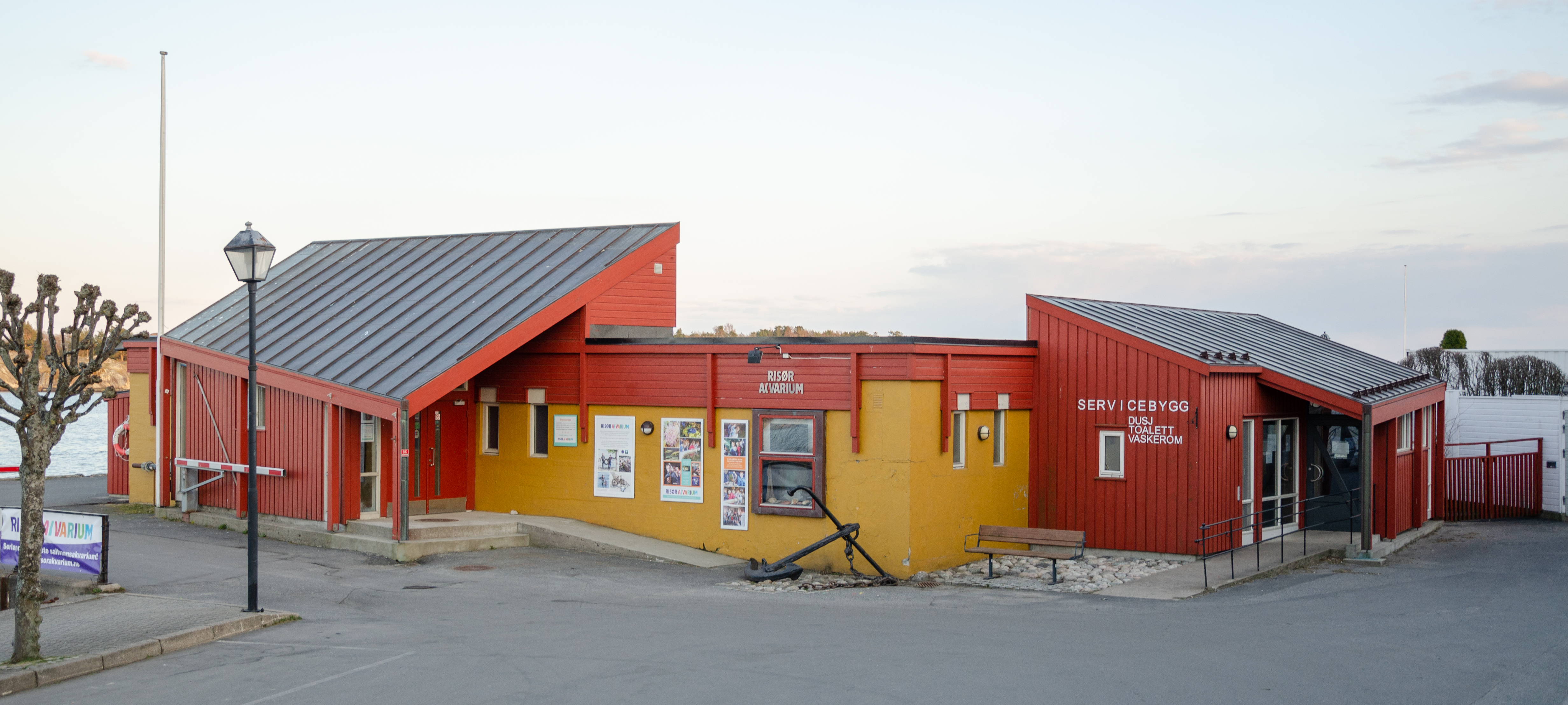 Risør aquarium in April 2019.